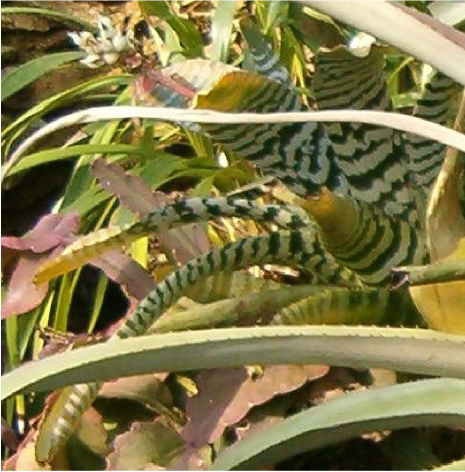 Name Aechmea chantinii Genus Aechmea Family Bromeliaceae Location Berlin Botanical Gardens Berlin-Dahlem